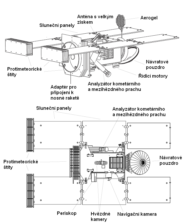 Drawing of probe Stardust with Czech description.